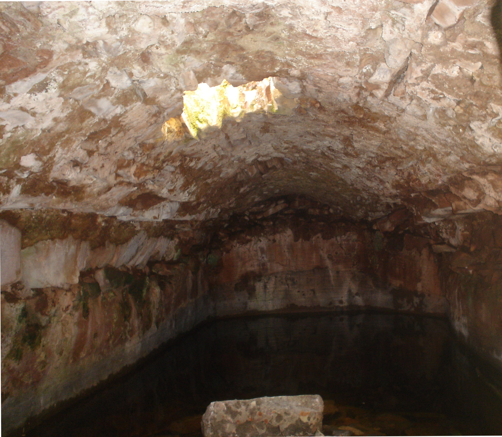 Author:Francisco Valverde Taken at Santa Àgueda, Minorca (Spain)